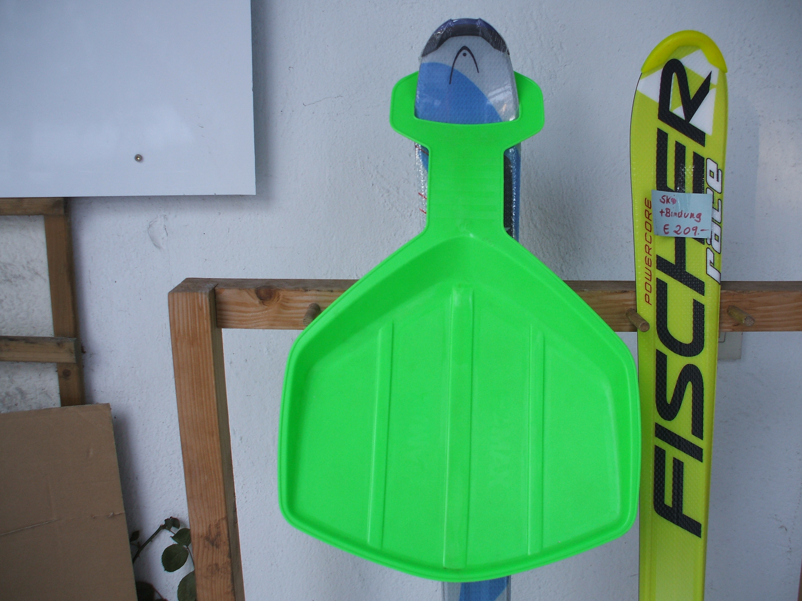 A cheap basic paddle.